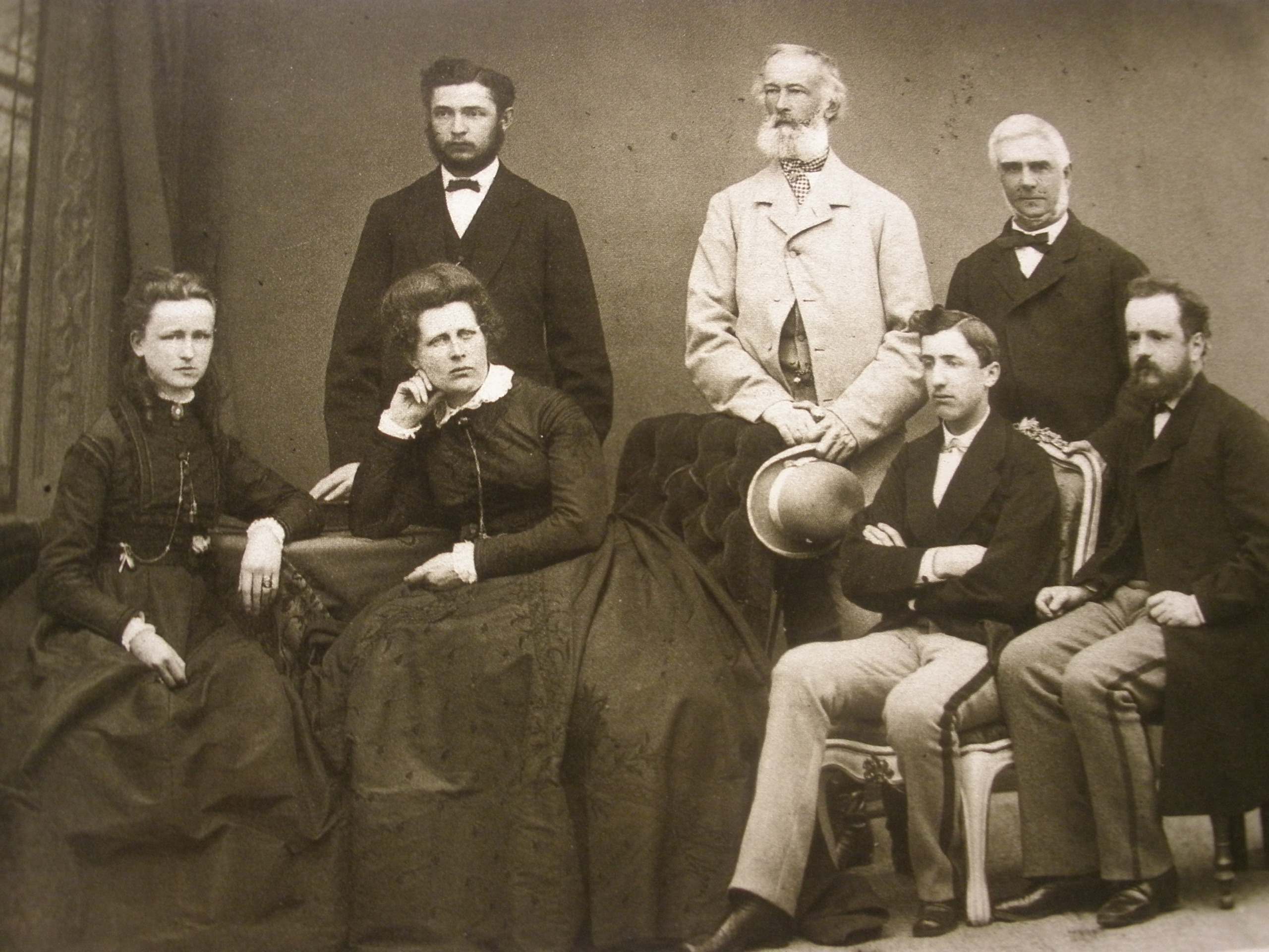 Photograph titled Krupp family with friends, resident tutor and resident doctor, in Nice, 1868/69, from left Clara Bruch, Bertha Krupp, Dr. Schwengberg [standing] (Friedrich Alfred Krupp's tutor), Alfred Krupp [standing in white coat], Friedrich Alfred Krupp, Dr. Schmidt [standing] (resident doctor) and one other person from the book Pictures of Krupp: Photography and History in the Industrial Age by Klaus Tenfelde, books.google In Klaus Tenfelde: Bilder von Krupp. Fotografie und Geschichte im Industriezeitalter. C.H. Beck München 1994, the photo comes with the following caption: "Familie Krupp mit Freunden, Hauslehrer und Hausarzt in Nizza, 1868/69, von links: Clara Bruch, Bertha Krupp, Dr. Schwengberg (Hauslehrer von Friedrich Alfred Krupp), Alfred Krupp, Friedrich Alfred Krupp, Dr. Schmidt (Hausarzt) und eine weitere Person." books.google